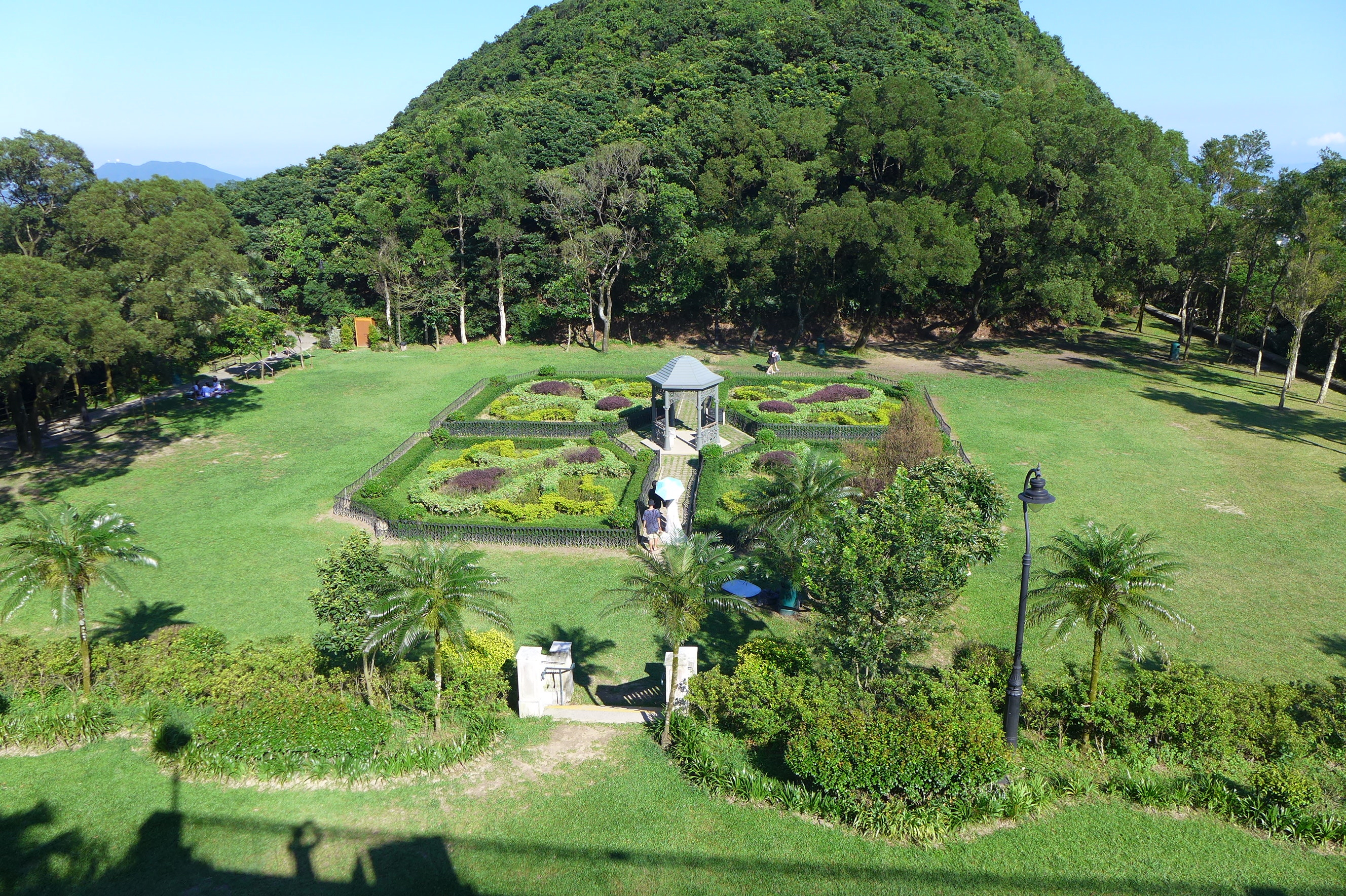 Victoria Peak Garden Lawn Plants